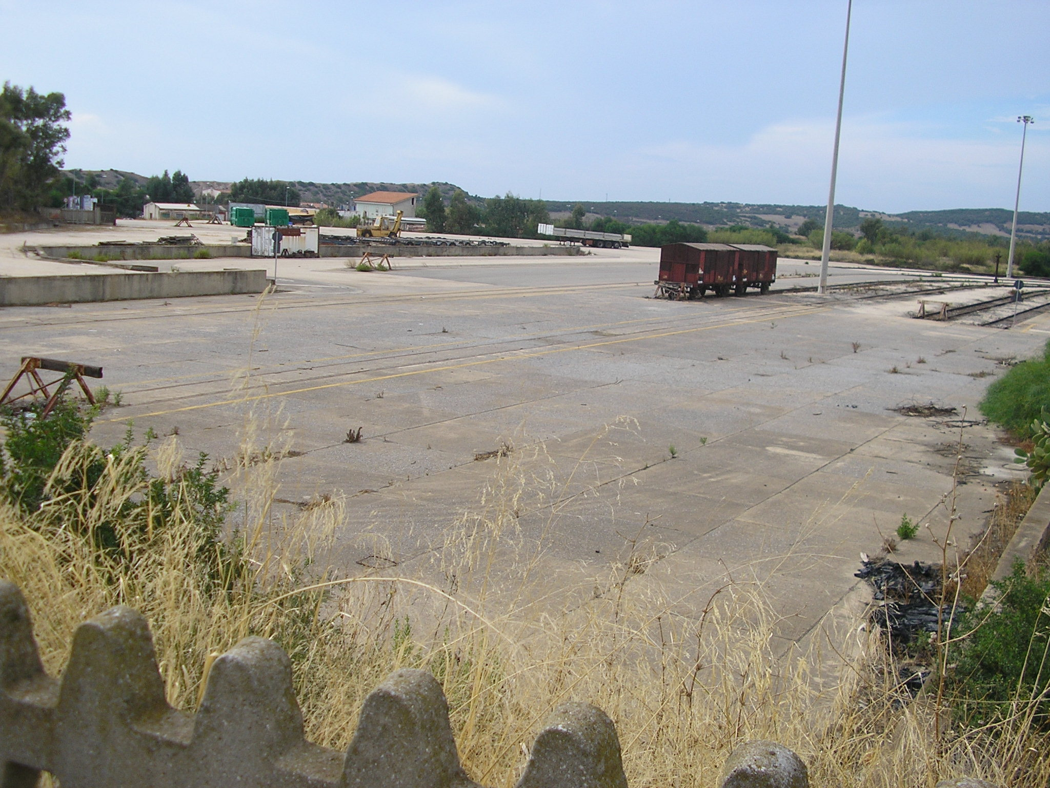 The goods square inside the Carbonia Stato station in Sardinia, Italy